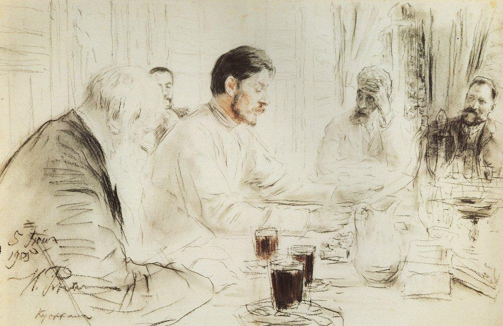 Maxim Gorky reading in "The Penates" his drama Children of the Sun. Compressed charcoal and sanguine on paper. 28 × 49.5 см. Private collection.